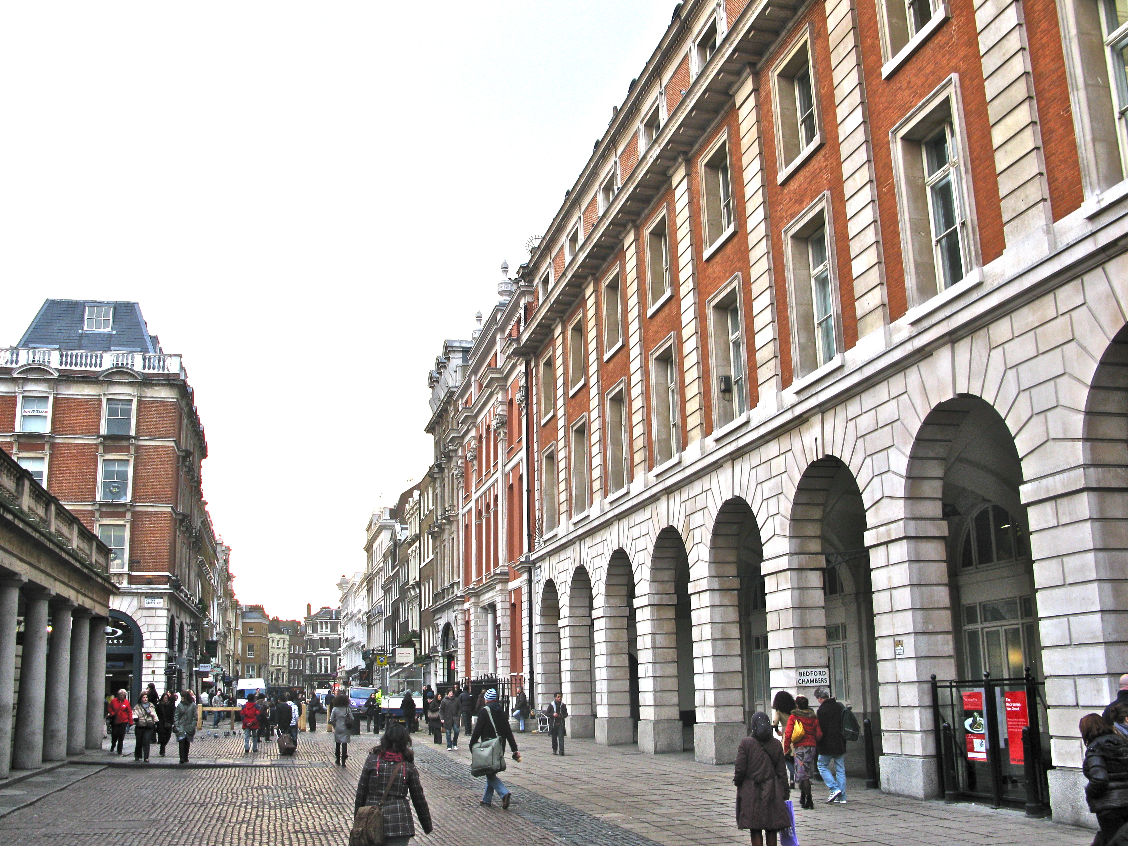 Place and buildings in front of Covent Garden, London, Great Britain